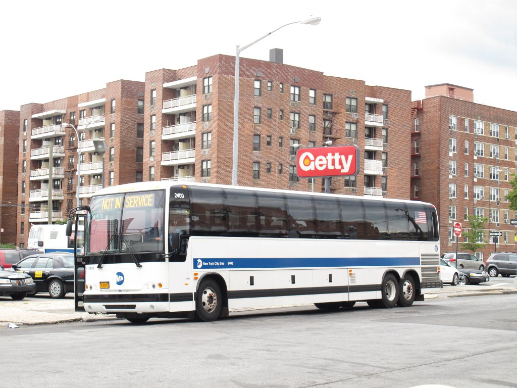 MTA New York City Bus #2400 sits outside of the Ulmer Park Depot in the Bath Beach section of Brooklyn, NY.